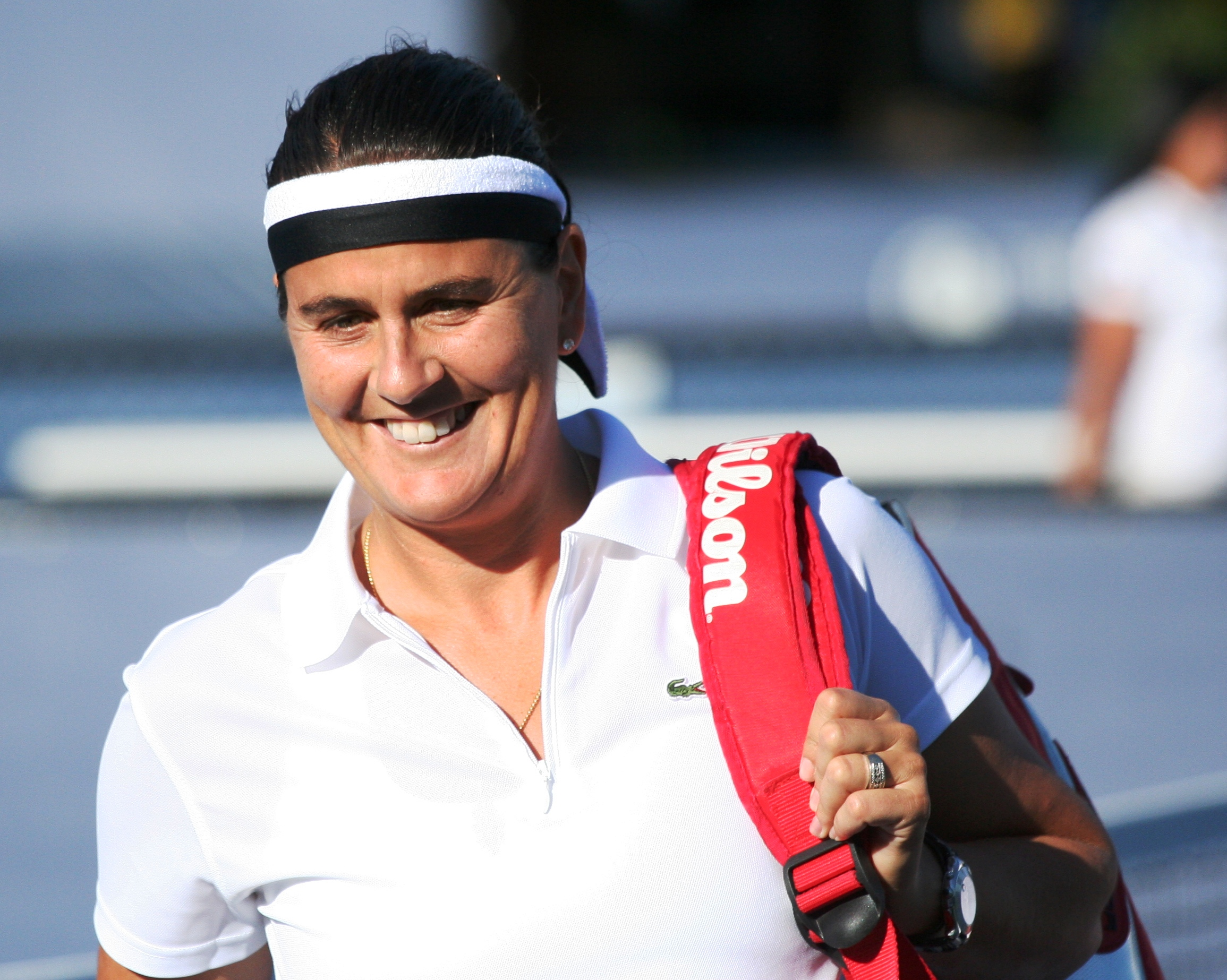 U.S. Open Champions Team Tennis Wednesday, Sept. 8, 2010